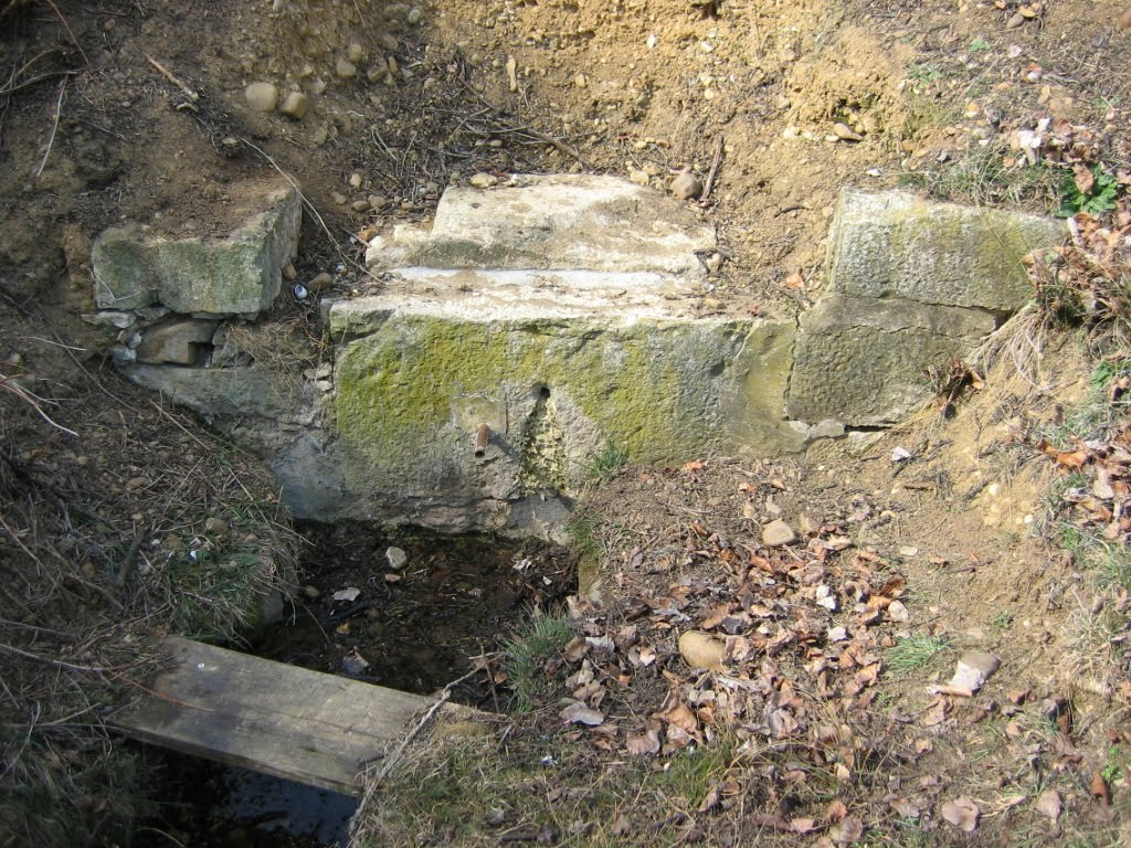 Fontain of Villamelendro (Palencia, Castile and León).